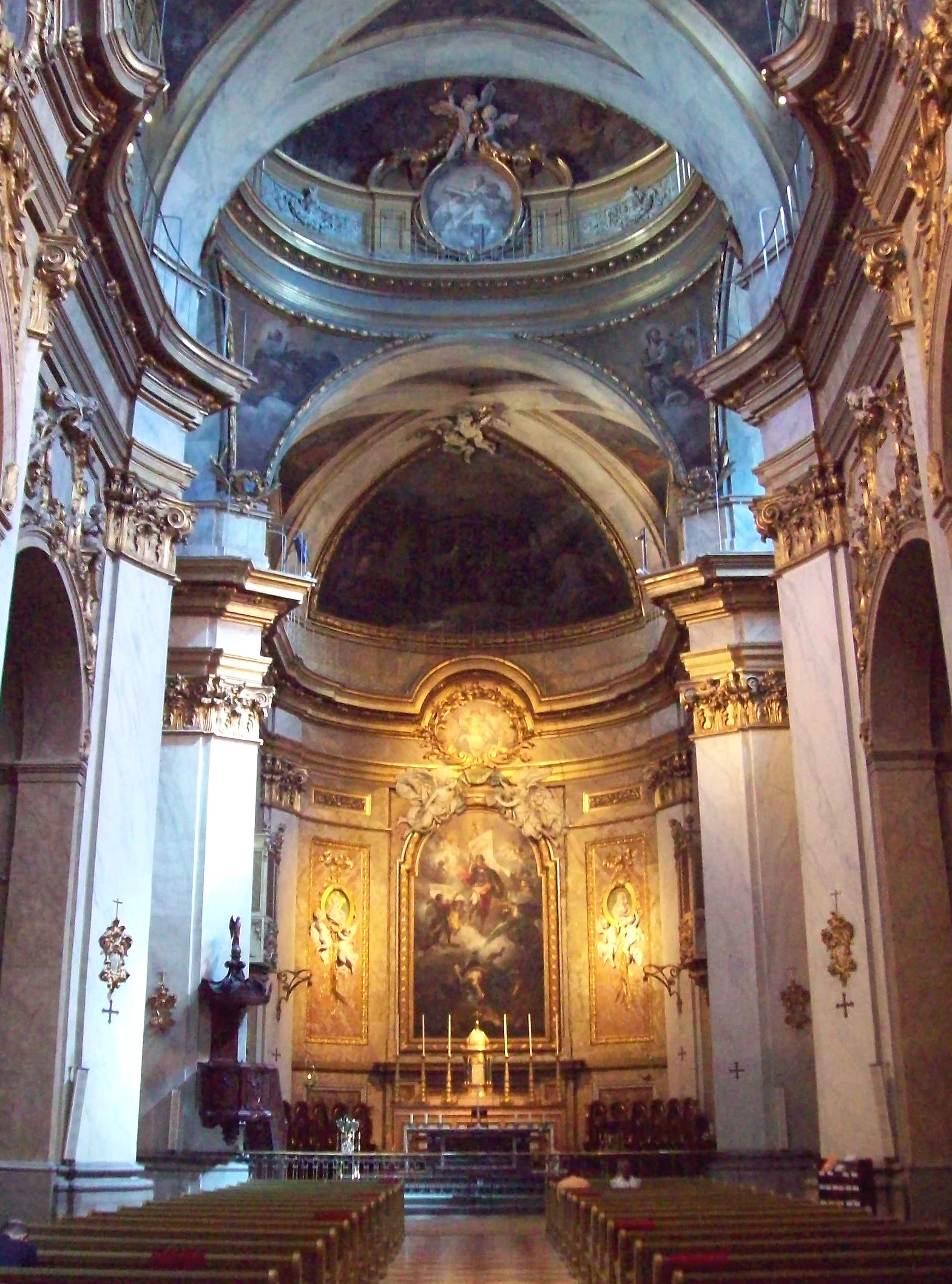 Interior of St. Michael’s Pontifical Basilica in Madrid (Spain).